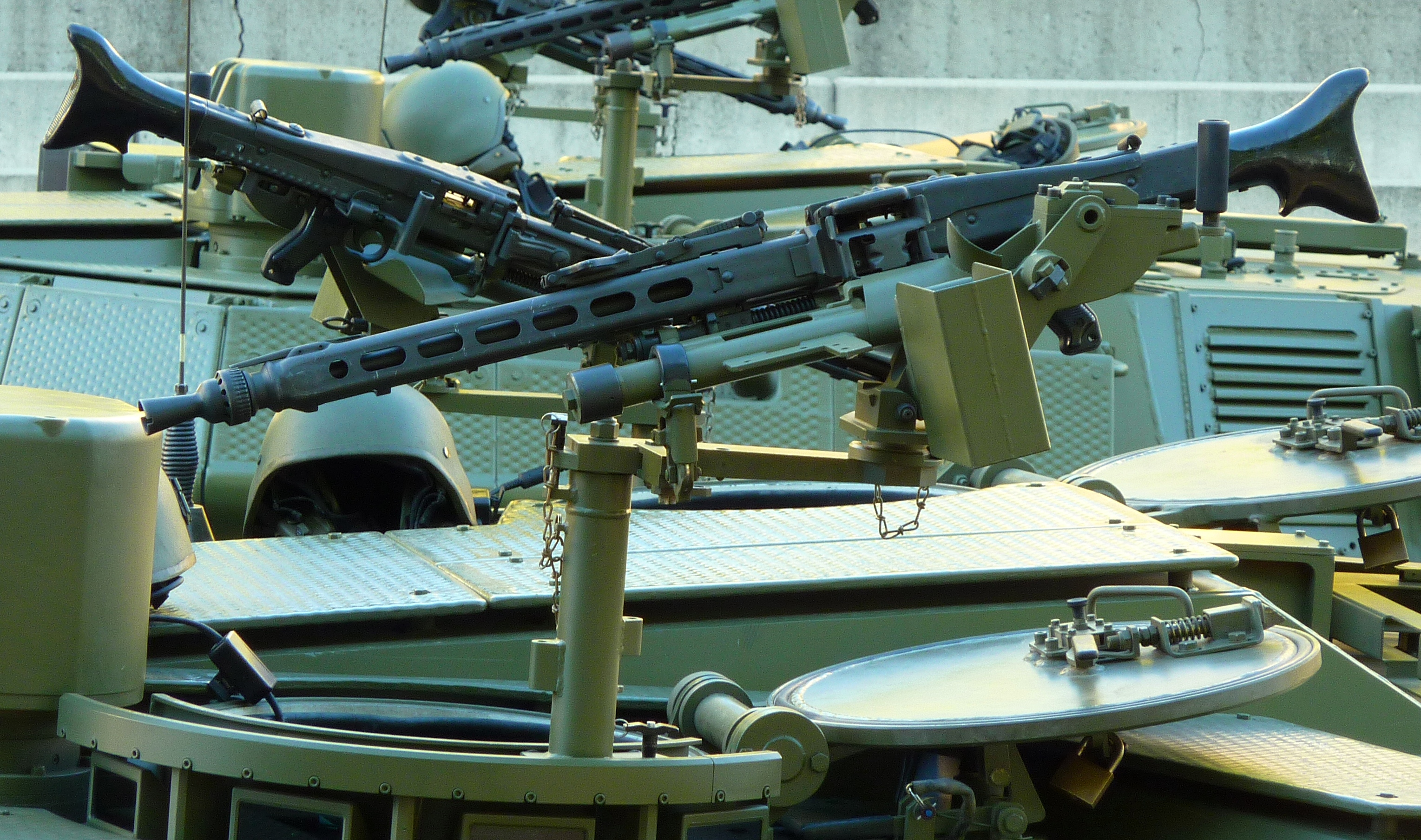 Two MG-3 on a Centauro armoured vehicle of the Spanish Army.